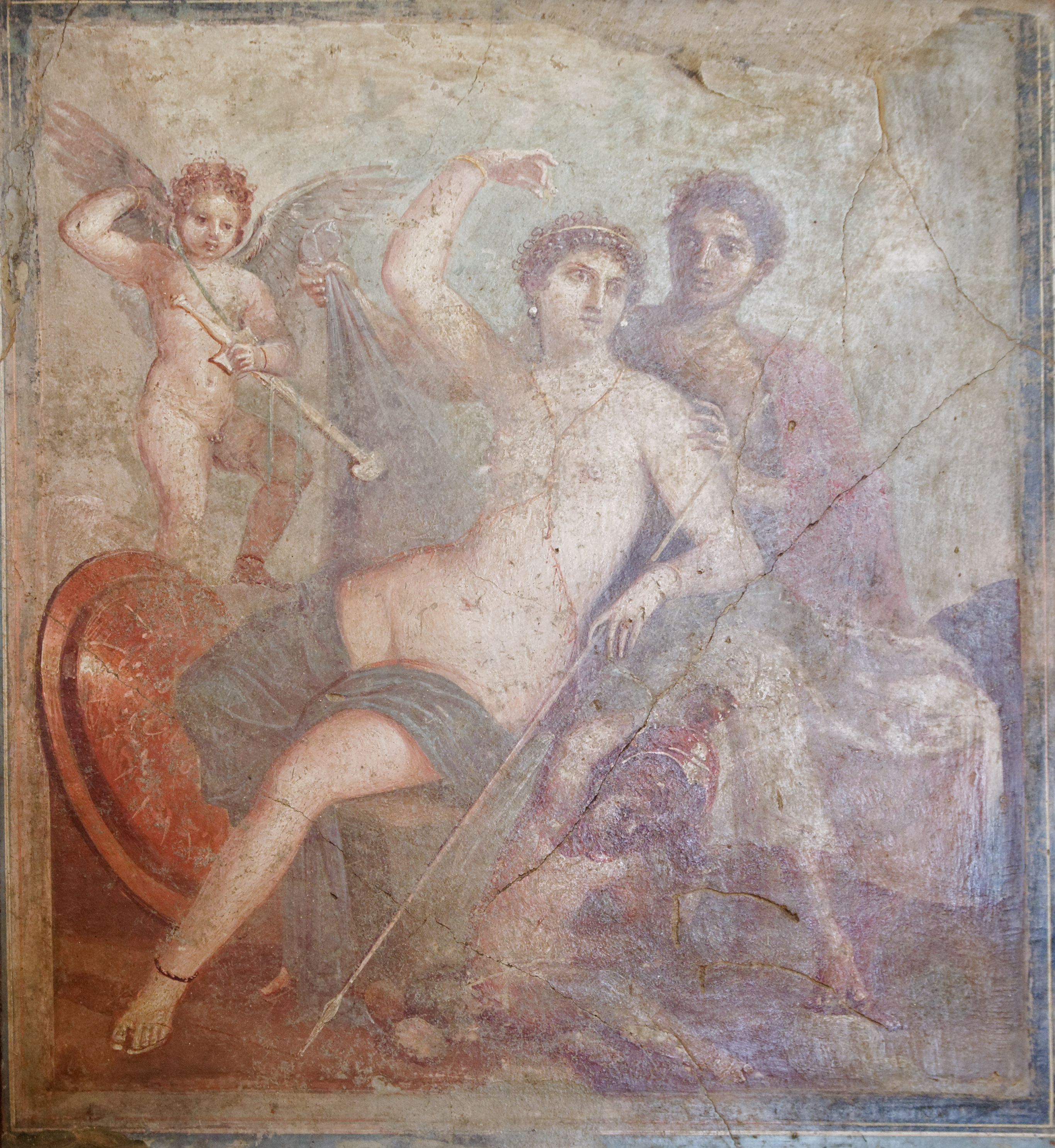 Mars and Venus.